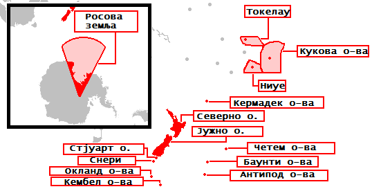 Realm of New Zealand. For context in full world map, see Image:NZ Realm of New Zealand.png.